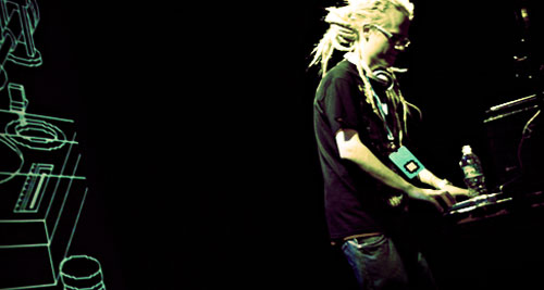 Dubmood live at Blipfestival 2008 in New York